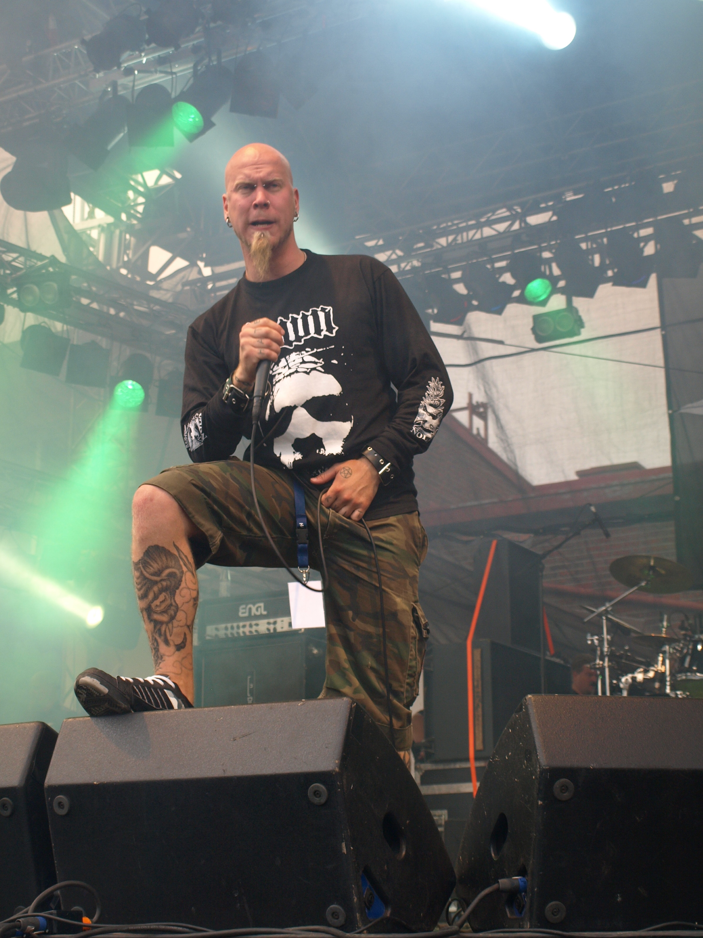 Finnish metal band Sotajumala live at Jalometalli 2008 in Oulu.